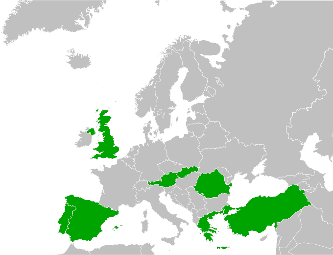 2010 Men's European Volleyball League